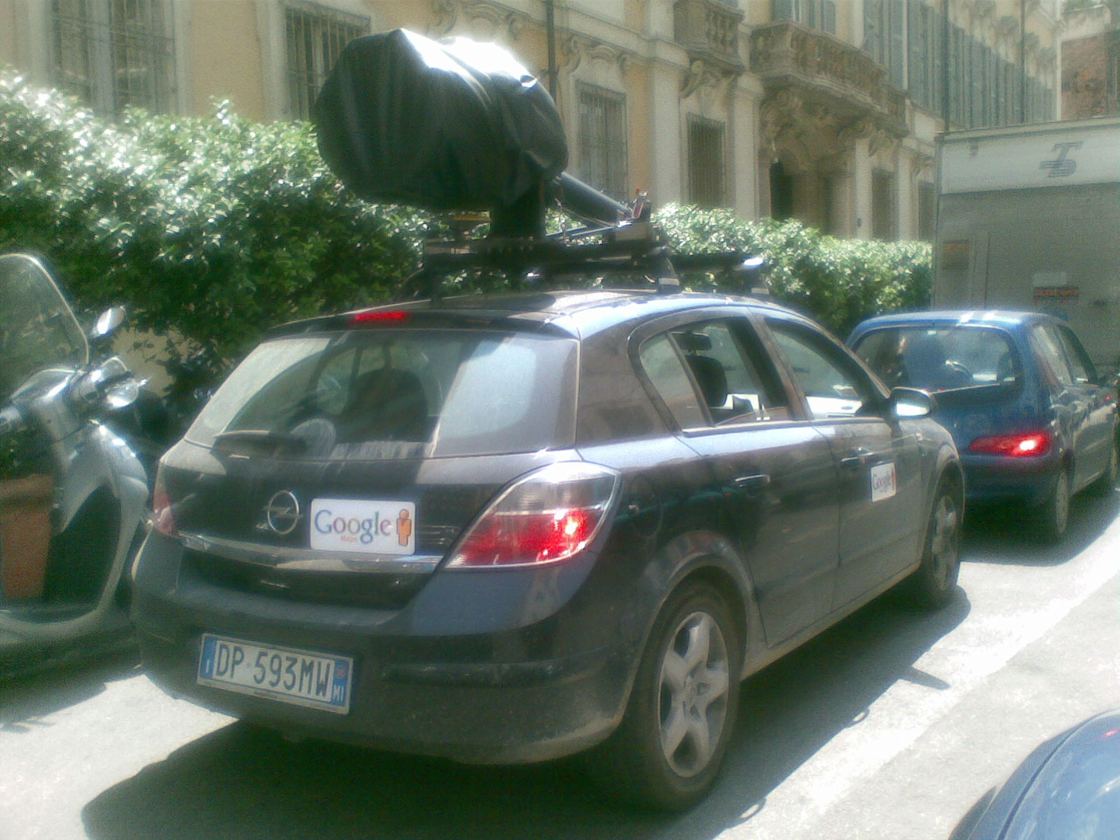 Google Street View Car in Milan, Italy.